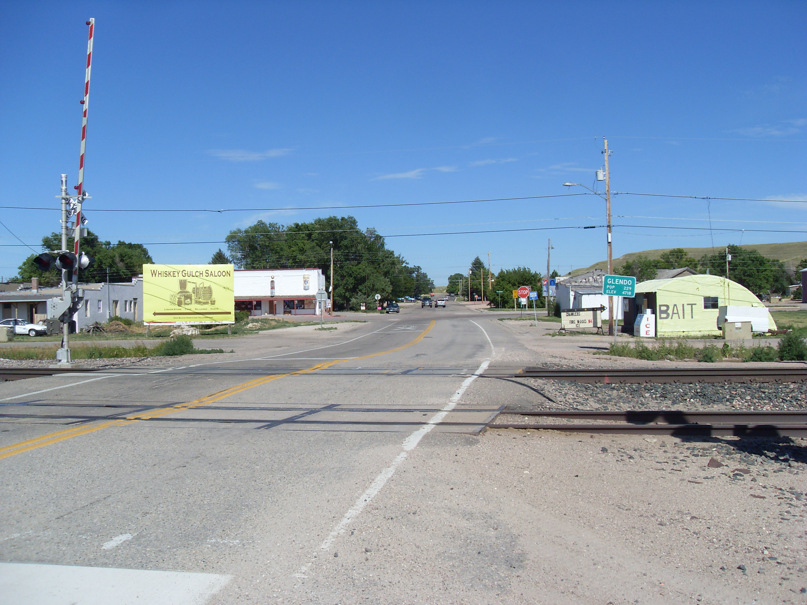 Main street of Glendo Wyoming